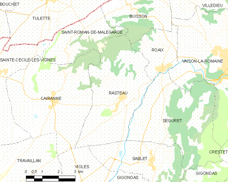 Map of French municipality Rasteau